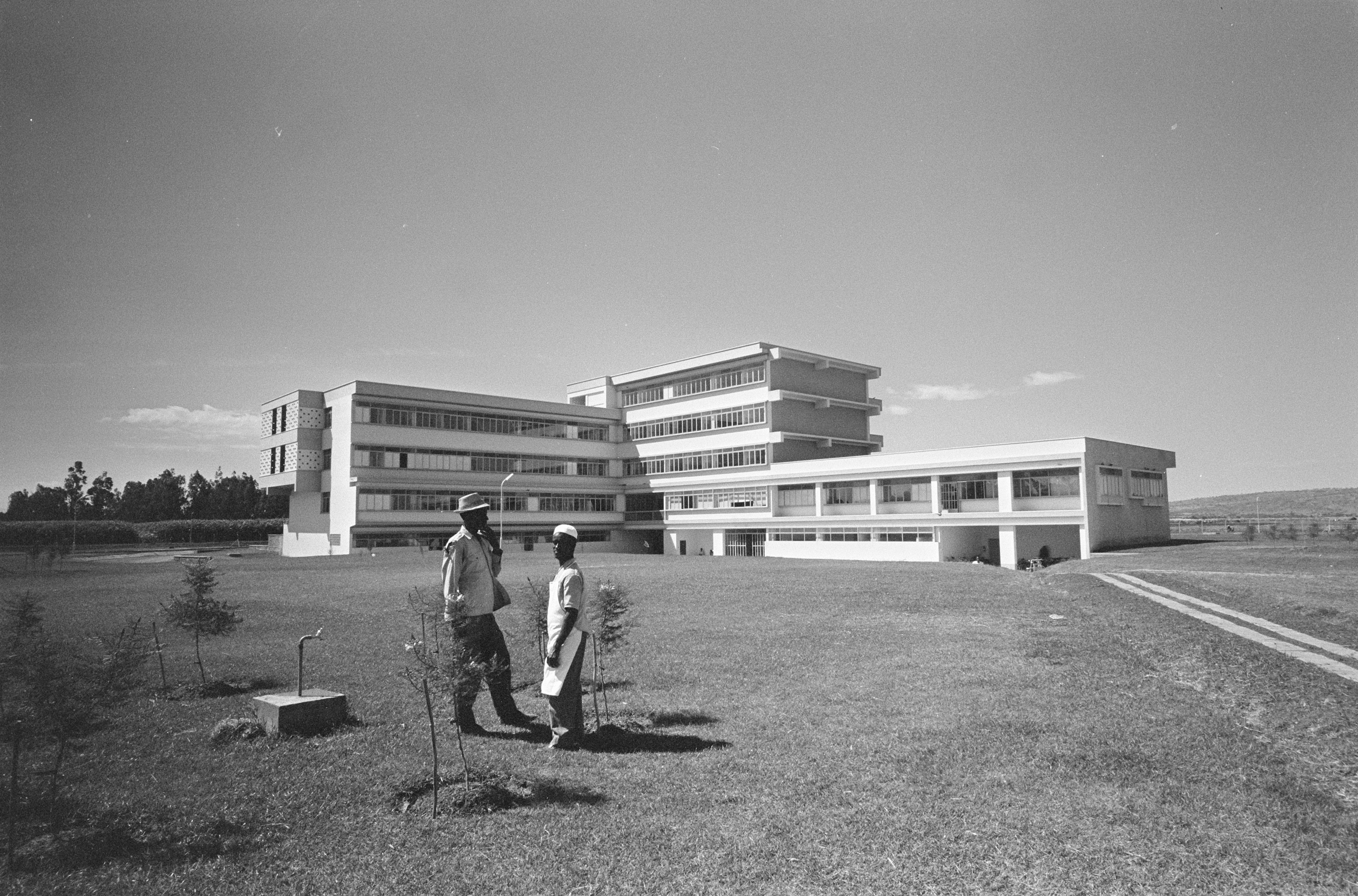 Hospital in Wenje Gefersa near sugar cane plant (HVA) (Ethiopia), 27 January 1969